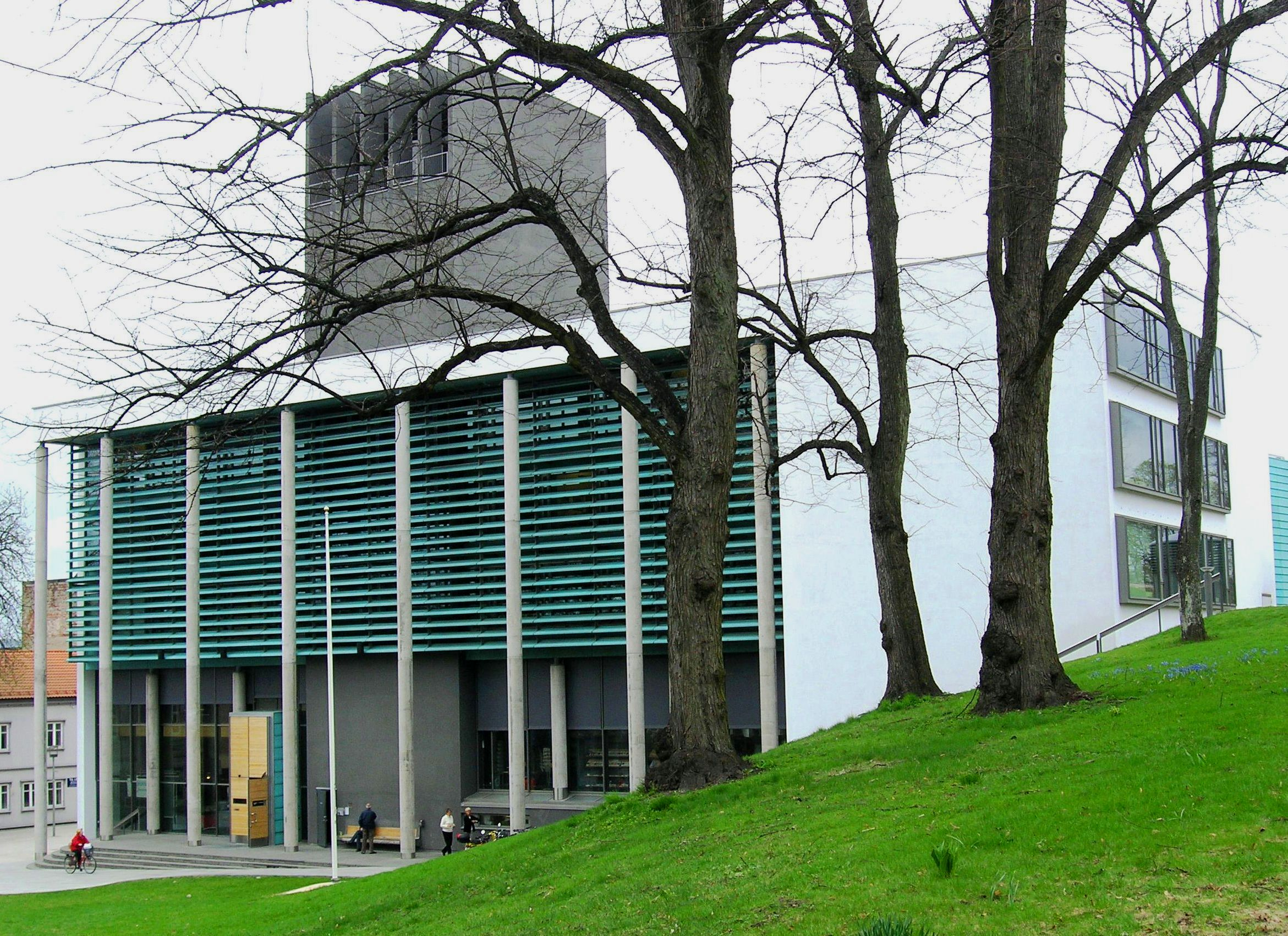 Fredrikstad townhall, Norway, from 2001. Architects Lunde & Løvseth.